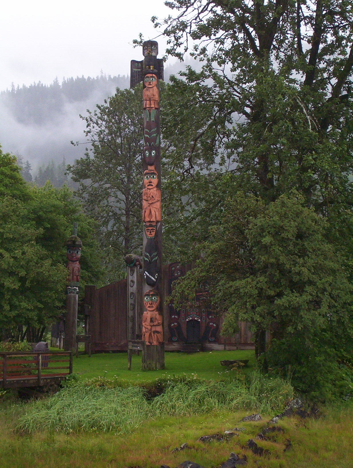 My own photograph (Sarah Hurst/BeringStrait)